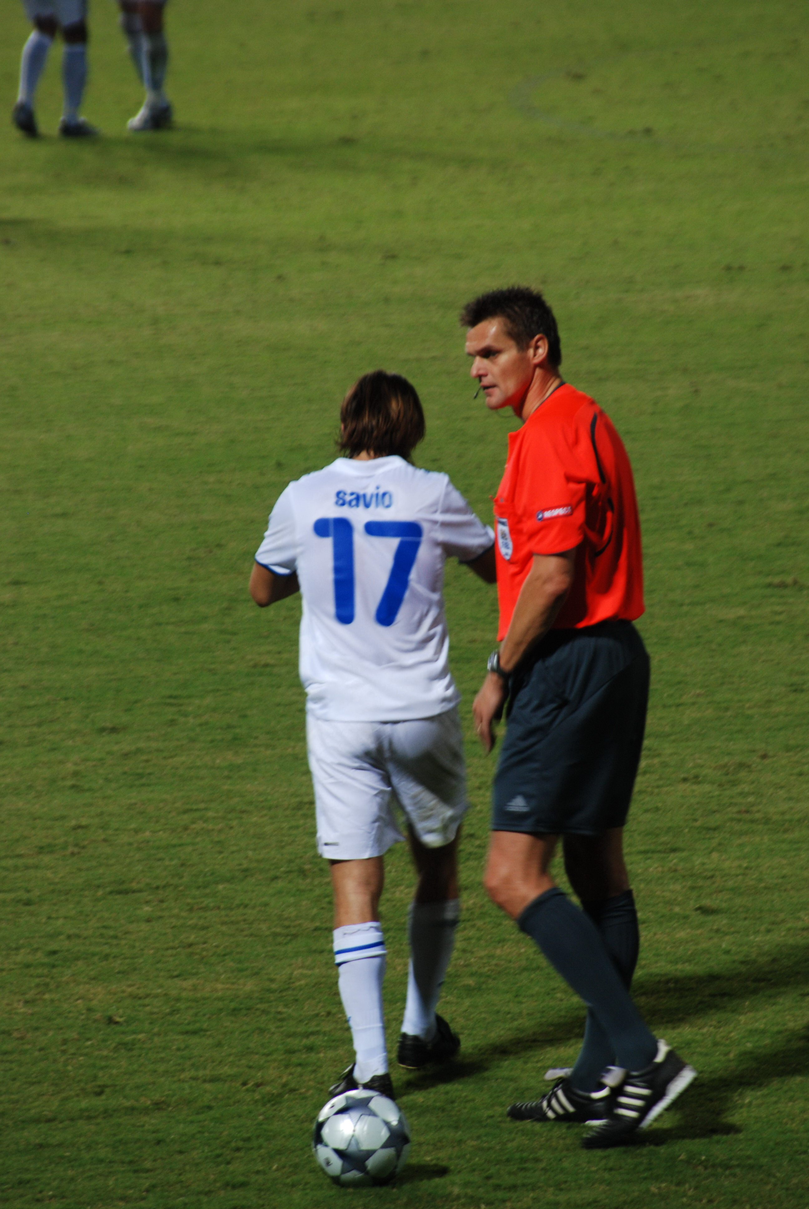 Savio